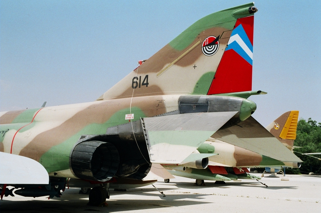 F-4E Phantom II 614 at the Israeli Air Force museum in Hatzerim, wearing the colours of 201 Squadron. This is an upgraded Kurnass 2000.